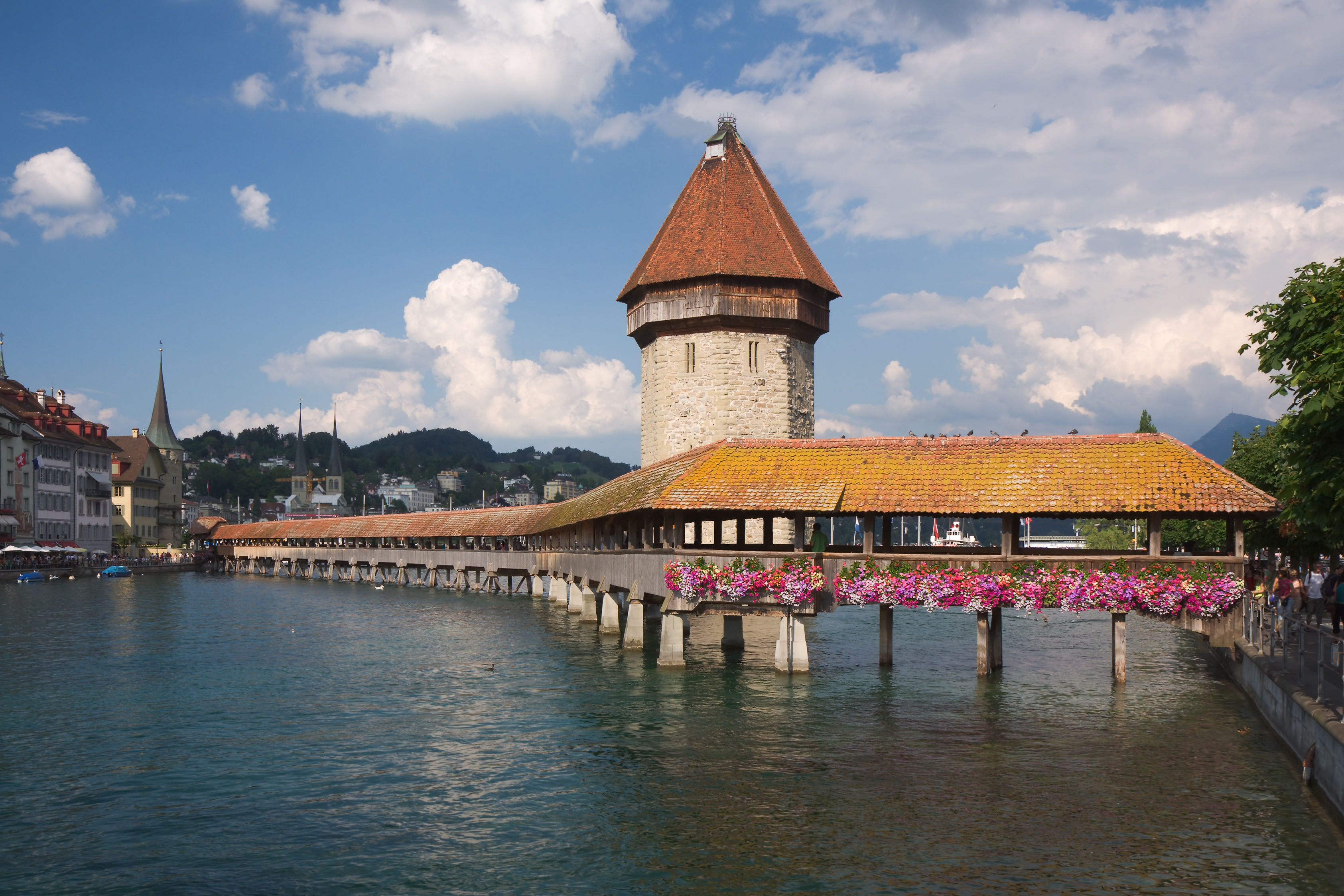 Kapellbrücke, Lucerne - the ensemble of the bridge and the old tower is one of the major landmarks of the town. The Church of St. Leodegar can be seen in the background.